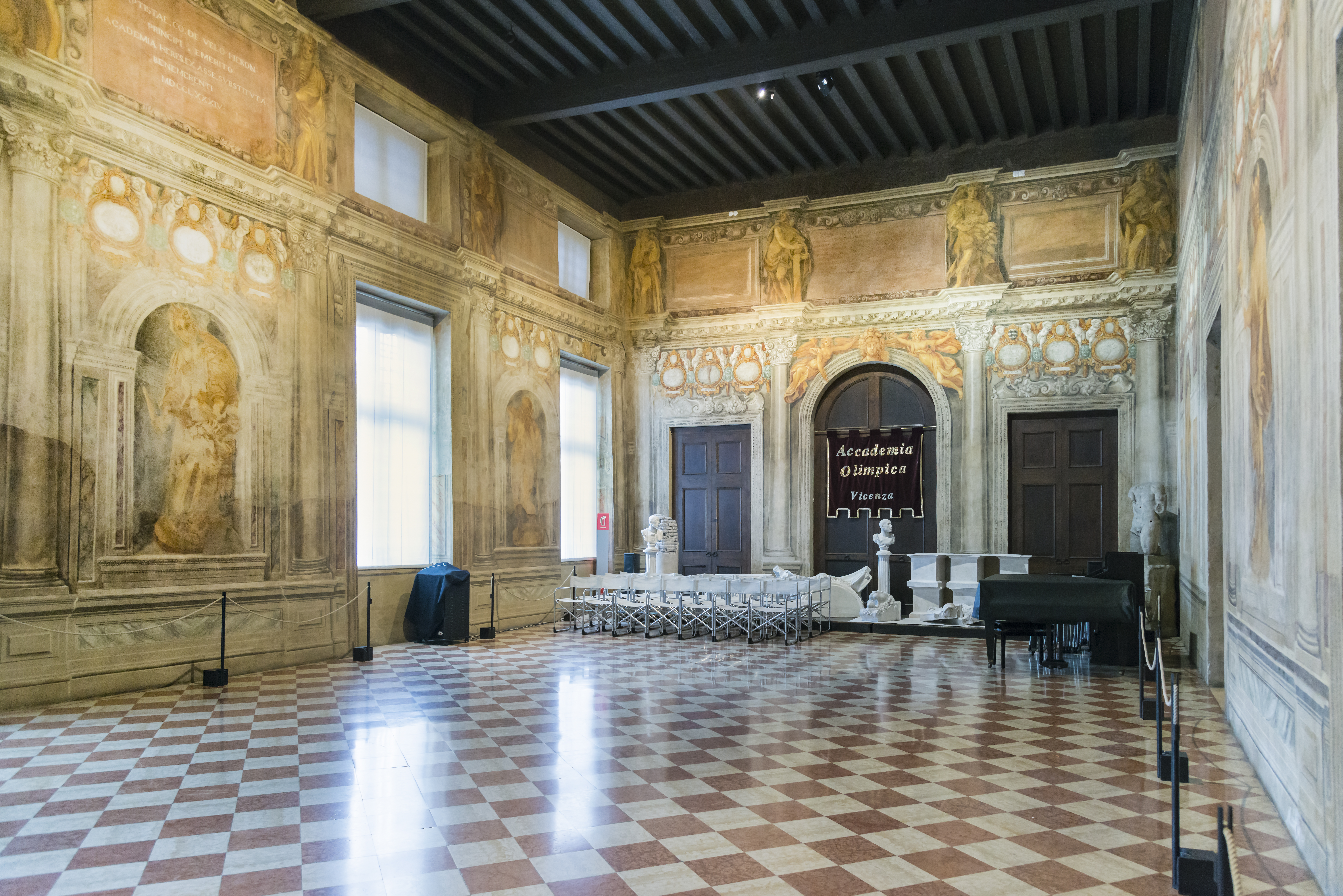 Teatro Olimpico. Theater located in Vicenza, designed in 1580 by the architect of the Renaissance Andrea Palladio. It is generally considered the first permanent covered theater of modern times. View of the Odeon